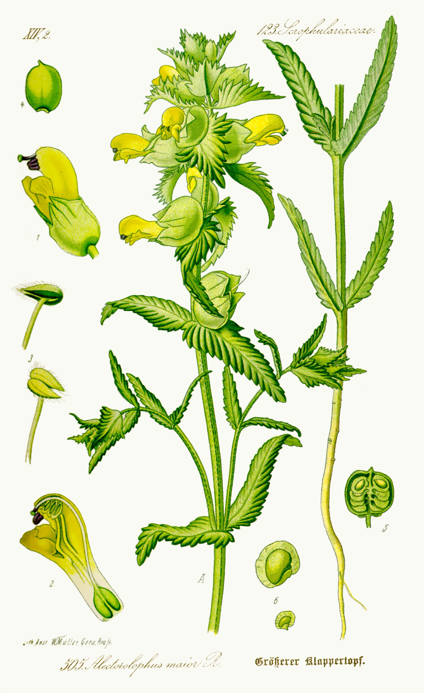 Rhinanthus serotinus